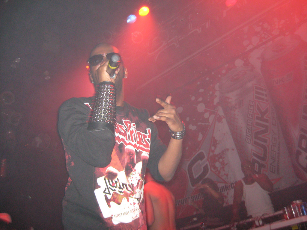 Juicy J (front) and DJ Paul (back) performing in 2009